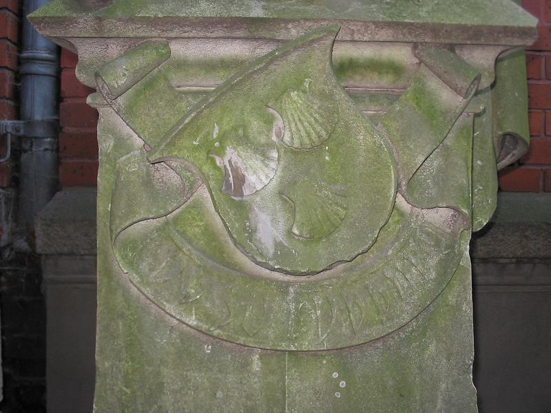 Weathered coat of arms of the noble family von Eyb on the pedestal of the bust of Ludwig von Eyb (1417–1502), which was a side bust of the monument group № 17 in the former Siegesallee in Berlin. Sculptor: Otto Lessing. The group was unveiled on 28 August 1900. Shown here stored without protection in the courtyard of the Lapidarium in Berlin-Kreuzberg in 2004.